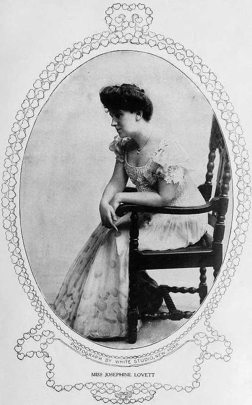 American screenwriter Josephine Lovett